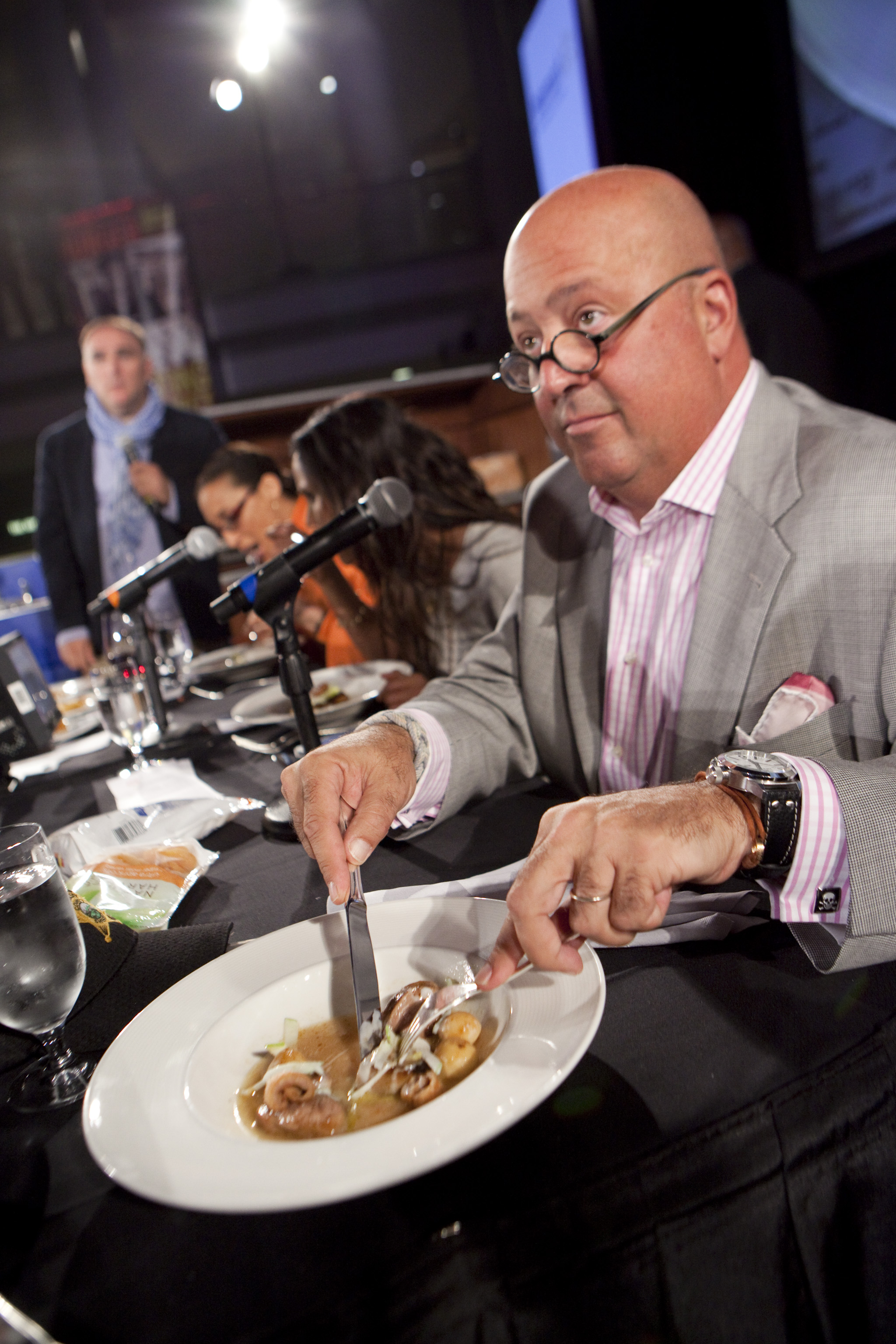 The Capital Food Fight™ is DCCK's signature fundraising event and DC’s biggest foodie event of the year. Check out the celebrity line-up and purchase tickets at